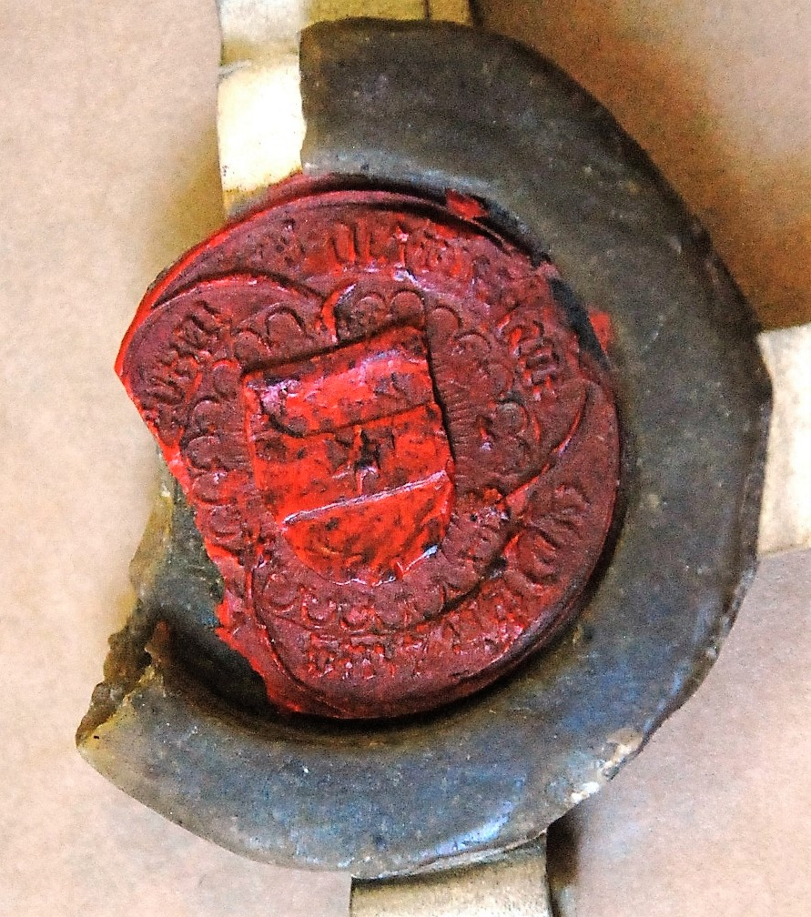 Bozen-Bolzano's town seal, dating back to 1488